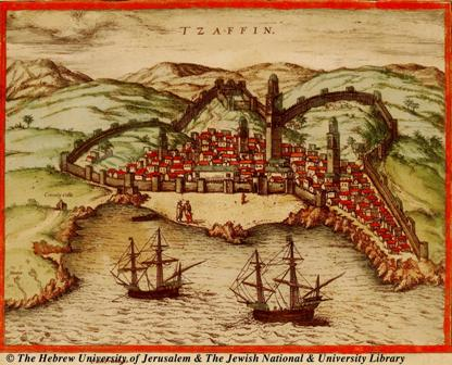 View of Safi in the 16th century